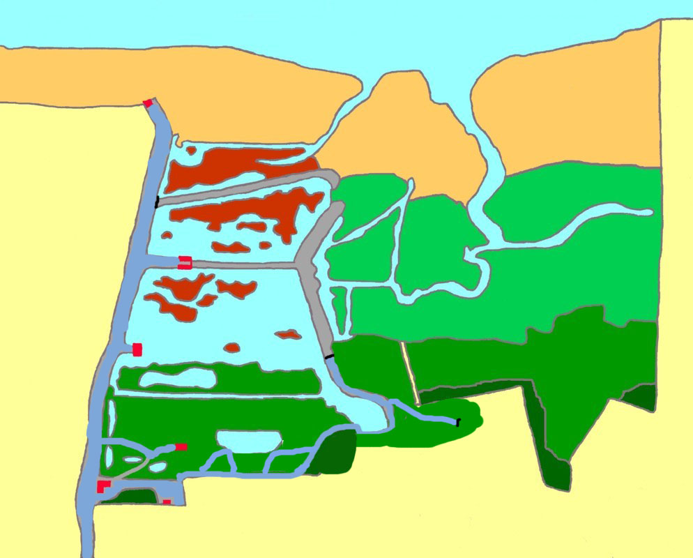 Map of Titchwell Marsh based on [ online map and reserve map leaflets